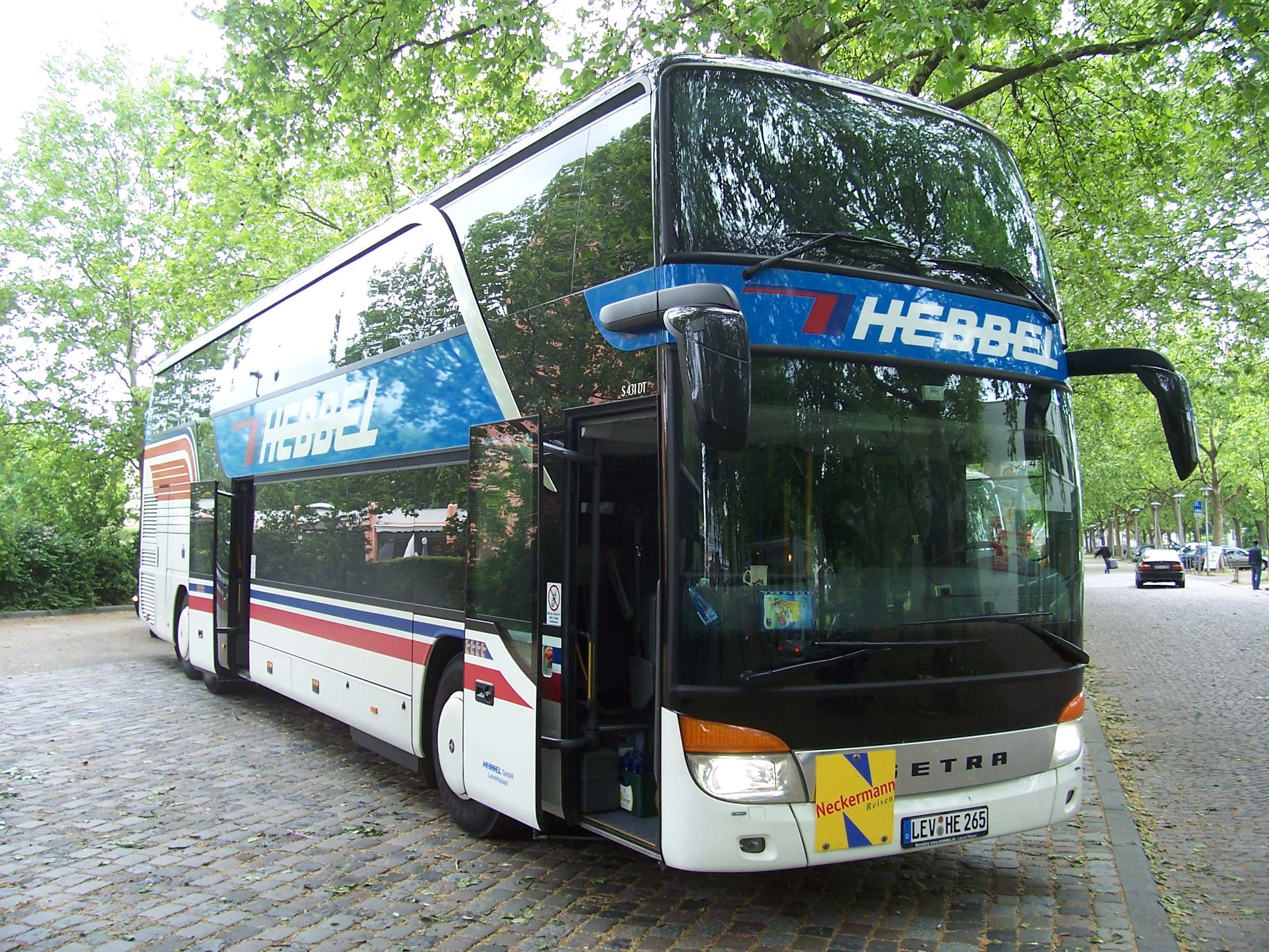 Setra S 431 DT coach (reg. LEV-HE 265) in Mannheim, Germany. Hebbel Busbetrieb GmbH from Leverkusen operator.